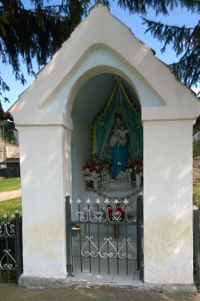 Chapel in Plakowice